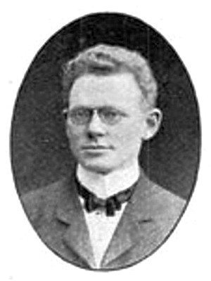 Carl Olof Thulin (1871–1921)